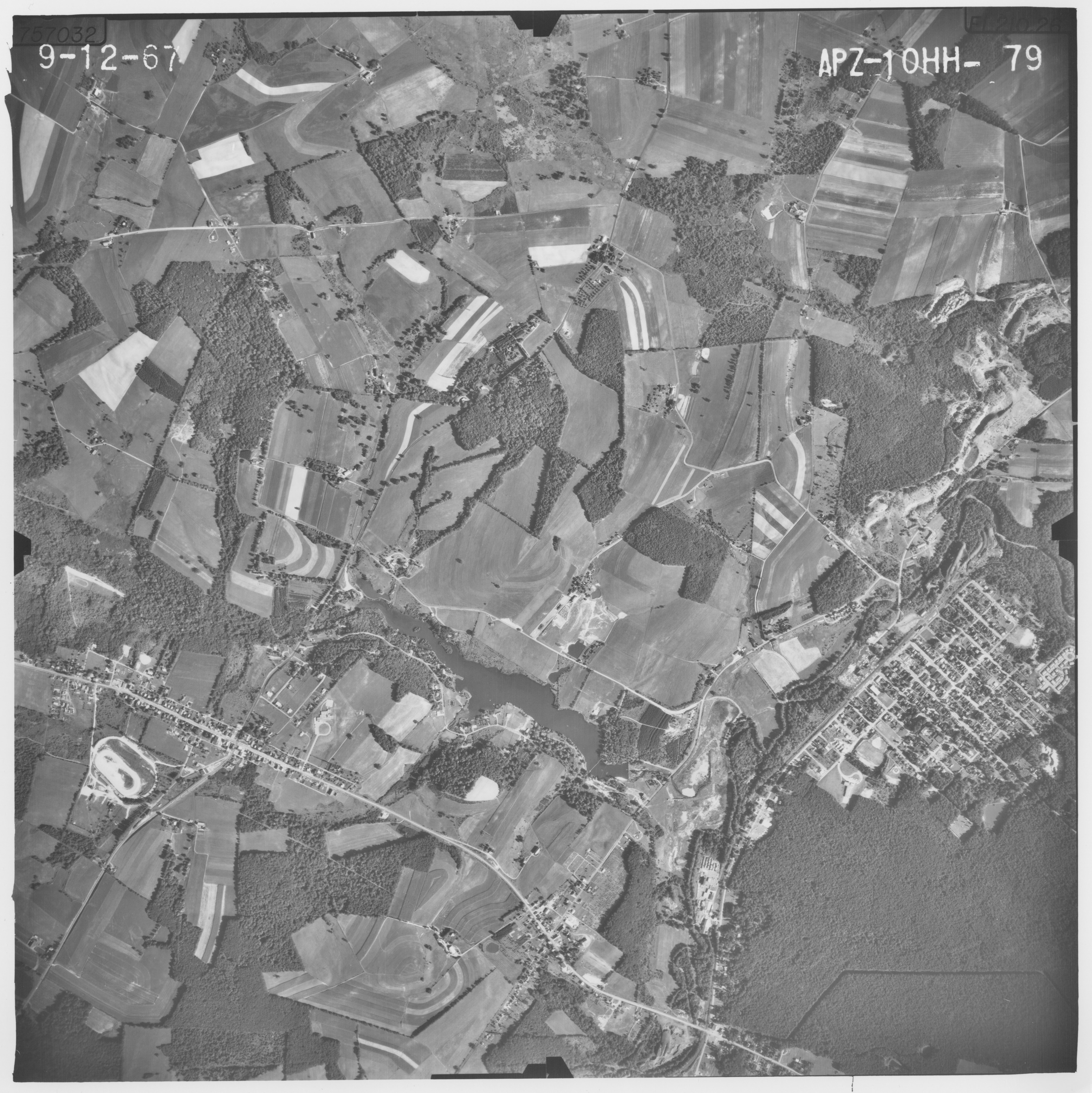 Aerial photograph of Boswell, Jennerstown and part of Jenner Township, Pennsylvania, Sept. 12, 1967, by the United States Department of Agriculture, Stabilization and Conservation Service.